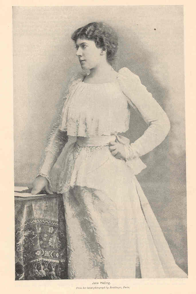 Jane Hading. Photograph by Reutlinger (París), published in the Munsey's Magazine in 1896.